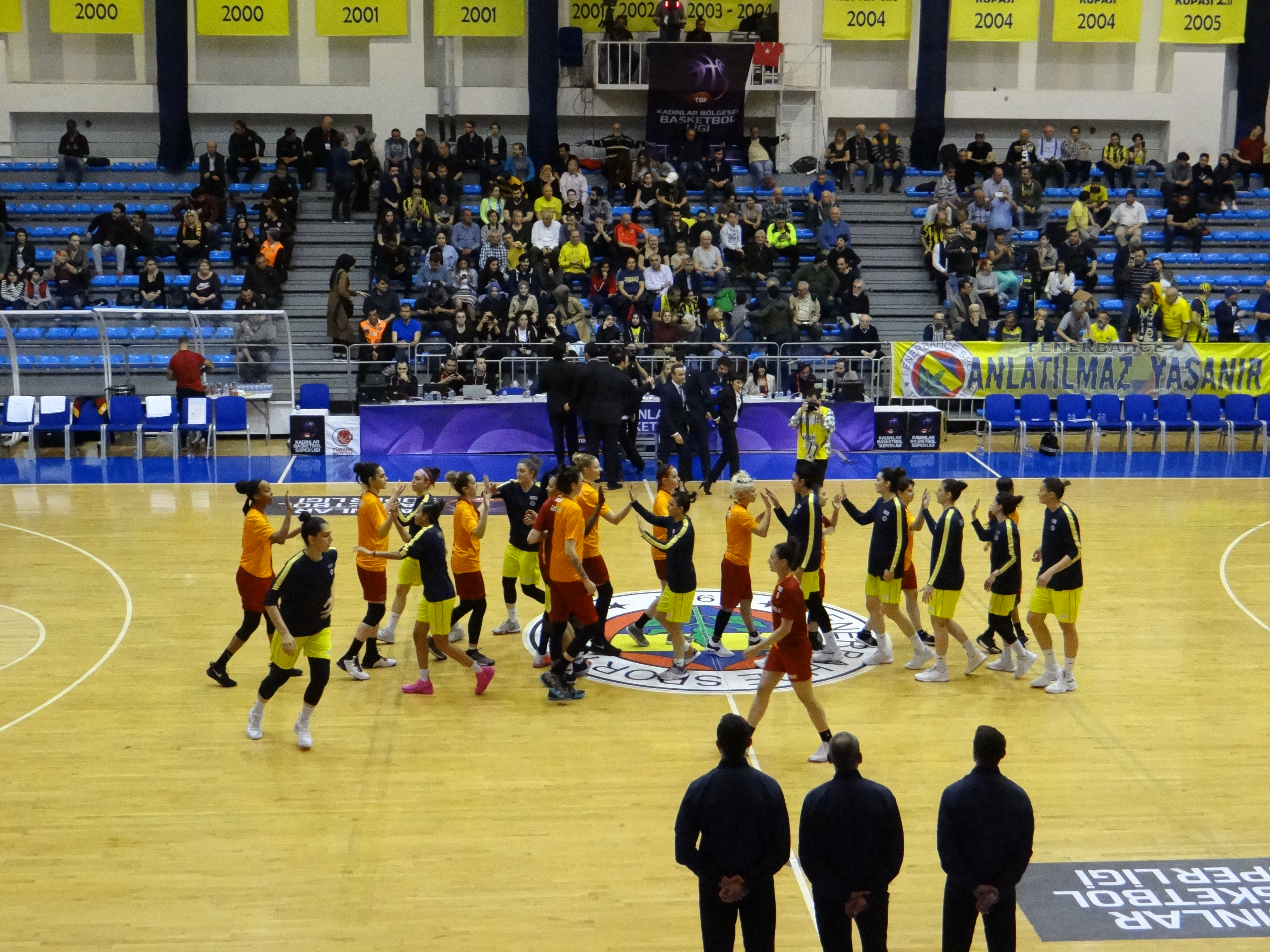 Fenerbahçe vs Galatasaray women's basketball 20190424